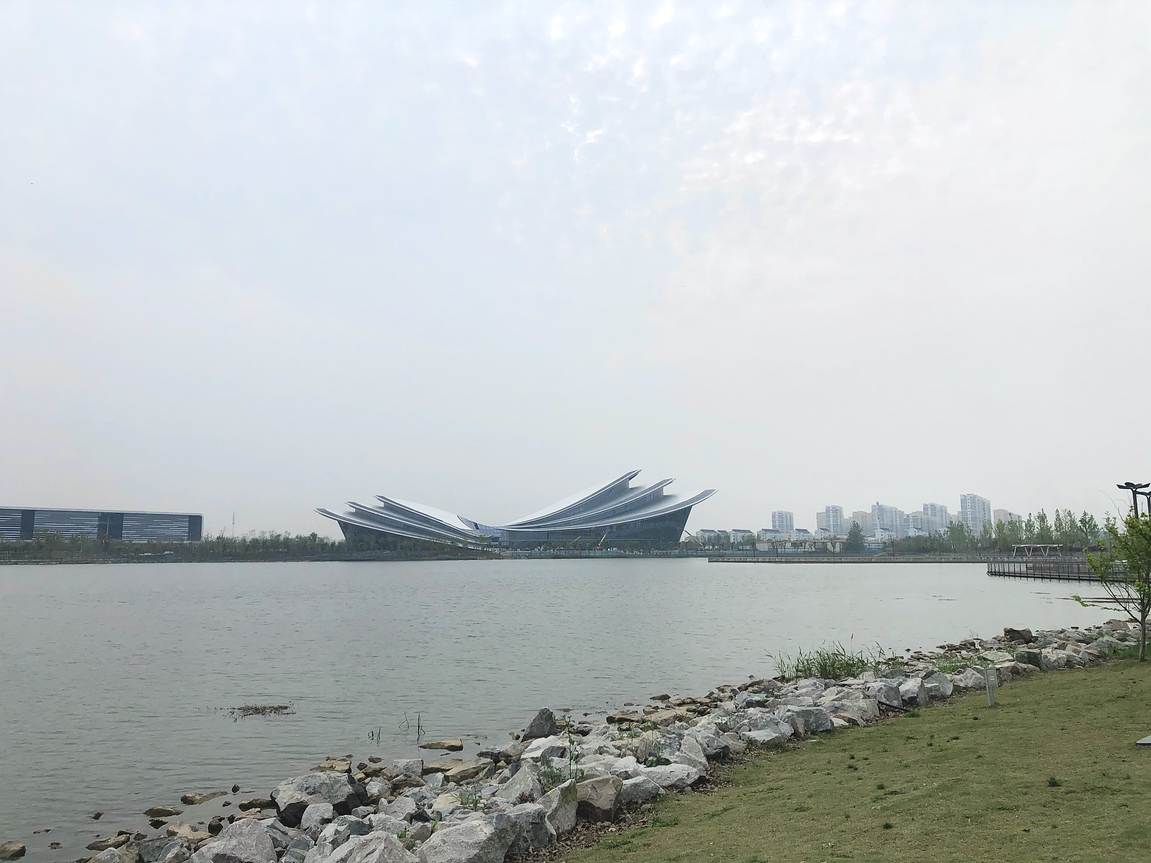 Qidong